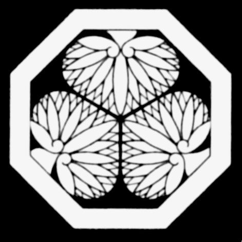 Crest of Tokugawa Mito branches